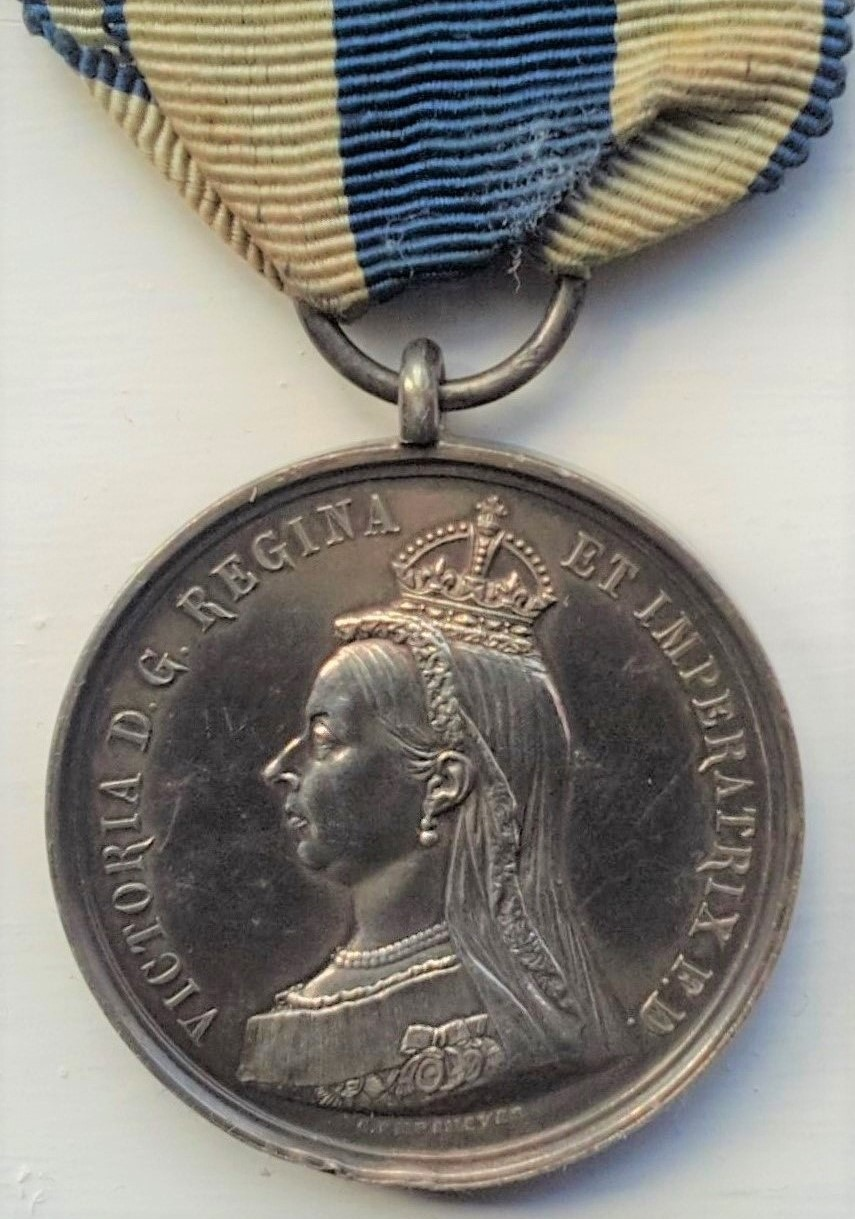 Victoria Jubilee Medal, obverse. For both Golden (1887) and Diamond (1897) Jubilee medals